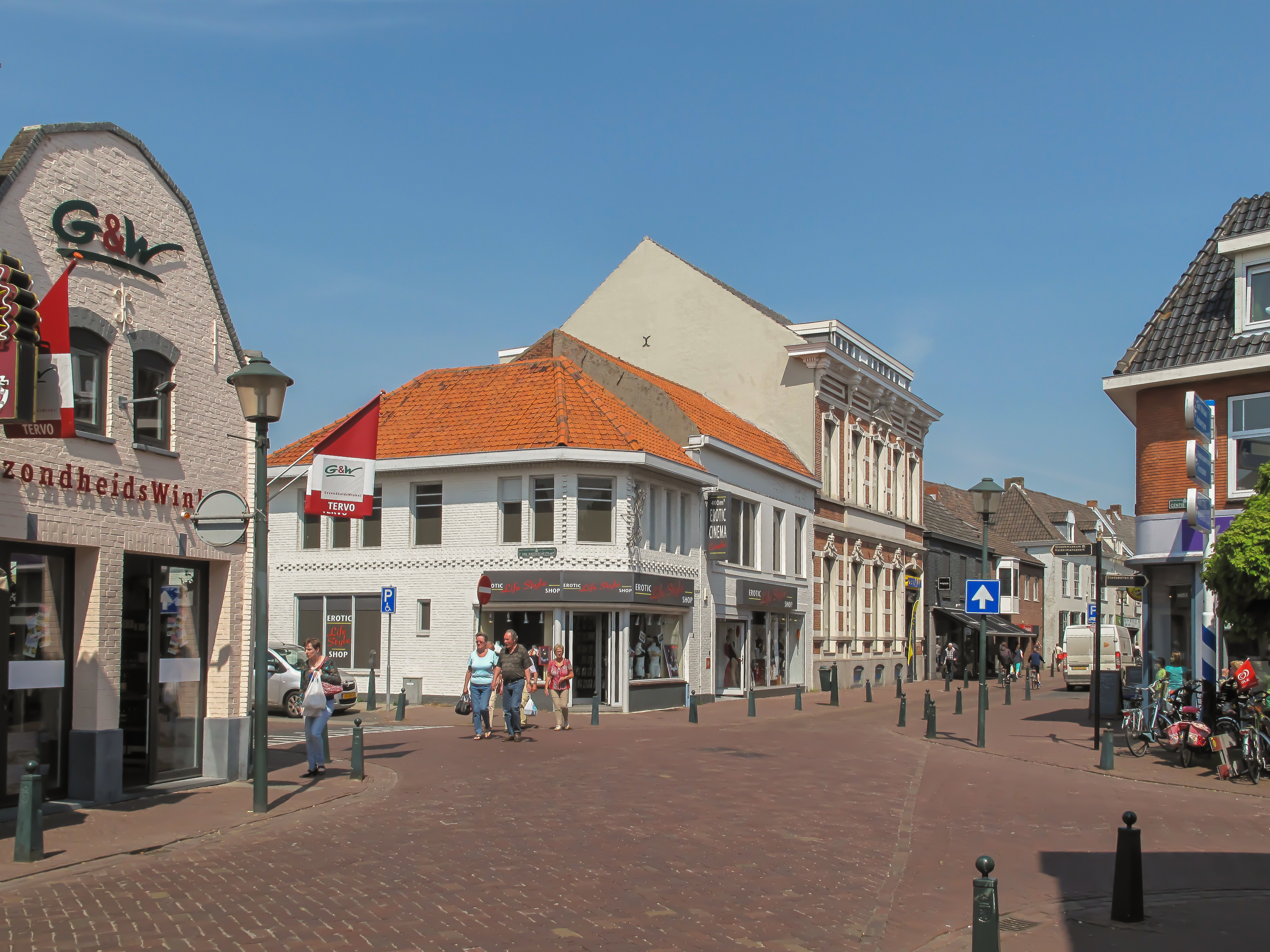 Hulst, view to a stret: de Gentsestraat